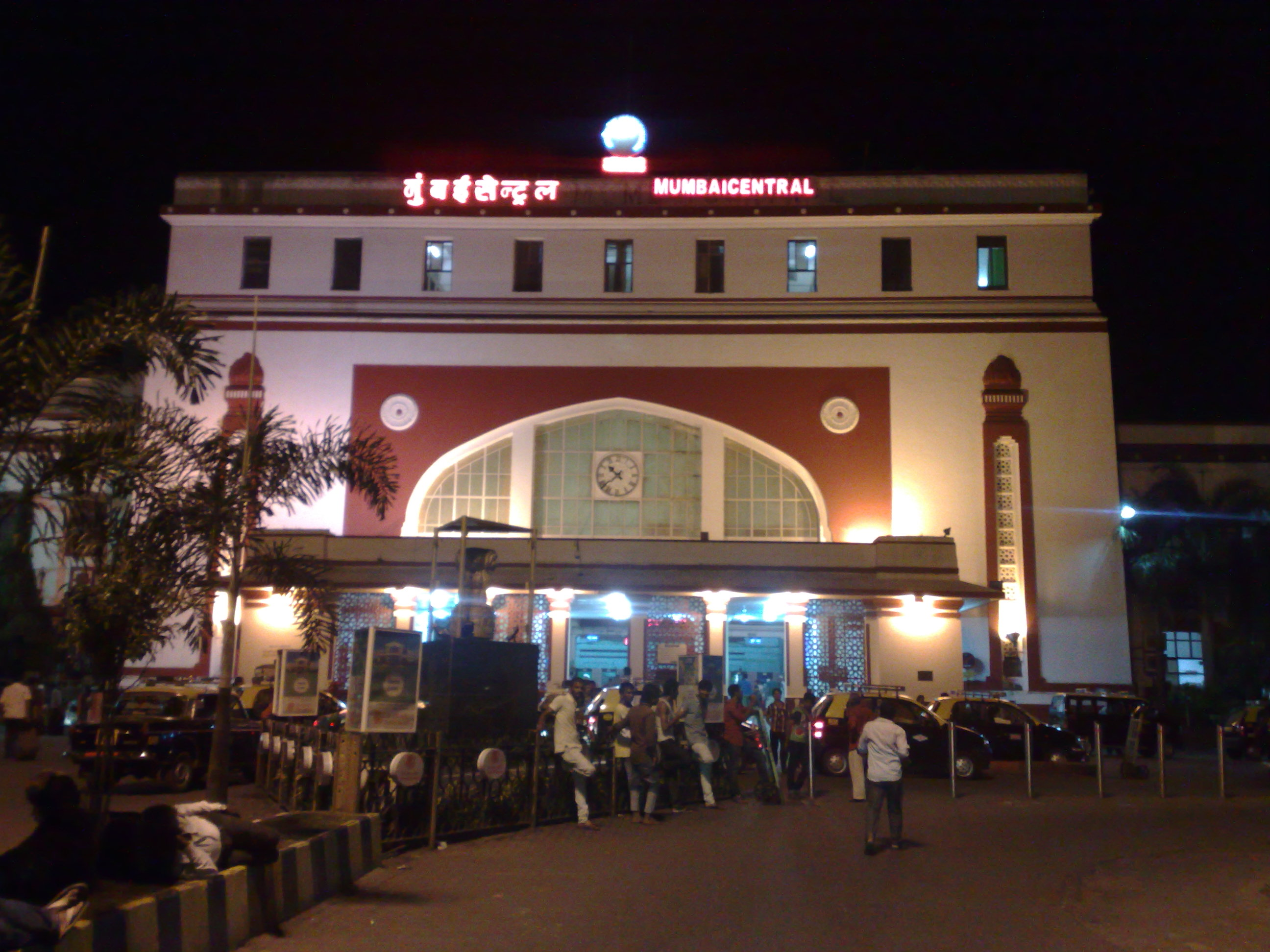 Mumbai Central main building at night